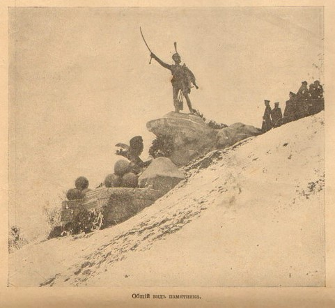 Vereja. Monument to general I.S.Dorohov, hero of the war of 1812. September 1913.